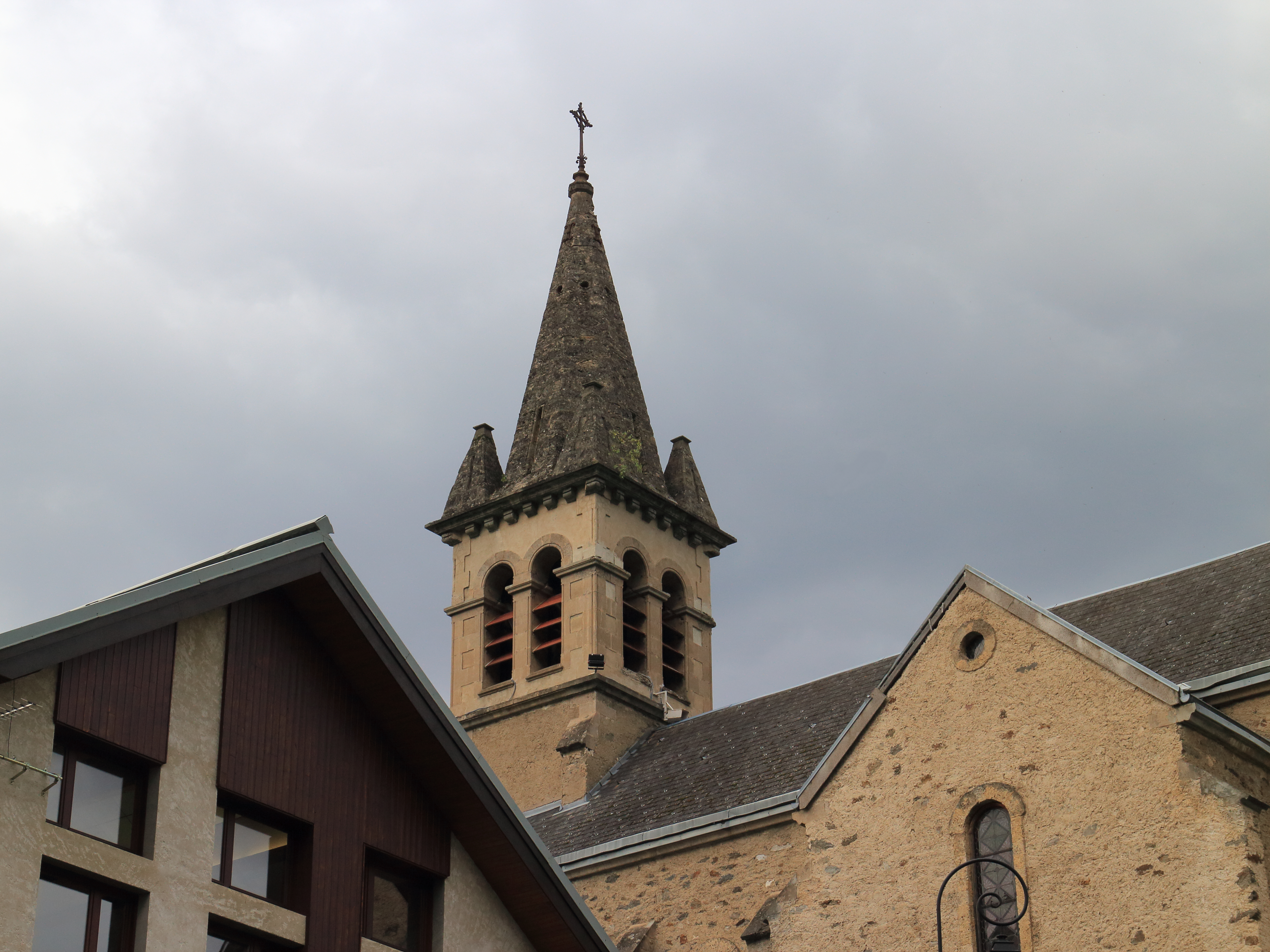 Mizoën, Frankrijk (1080 m.) Church.